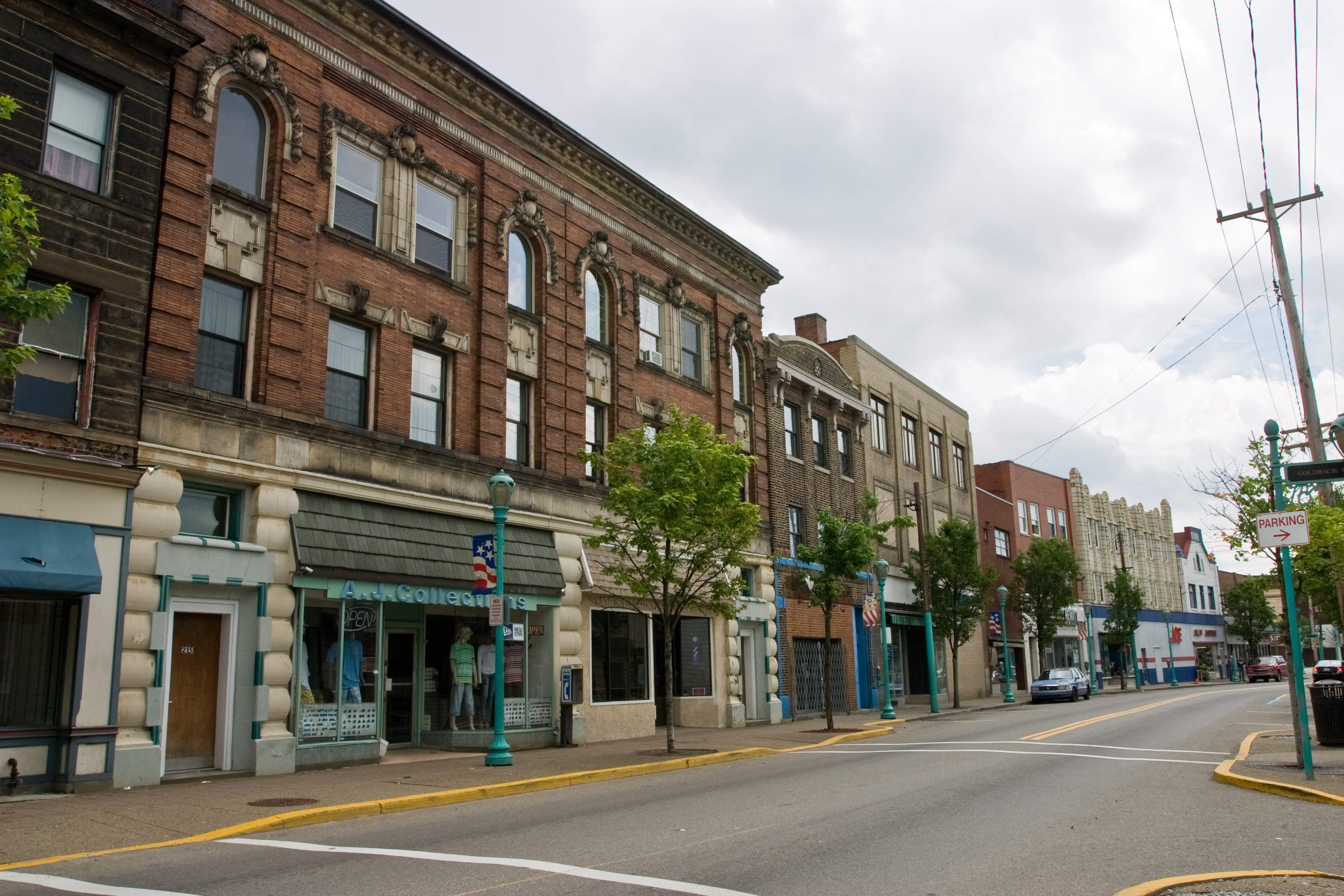 Brownsville Rd. in Mount Oliver, Pennsylvania, June 2008.